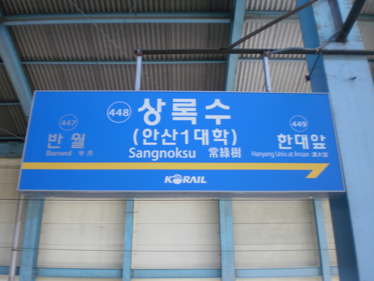 This is Panel of Sangnoksu Station.